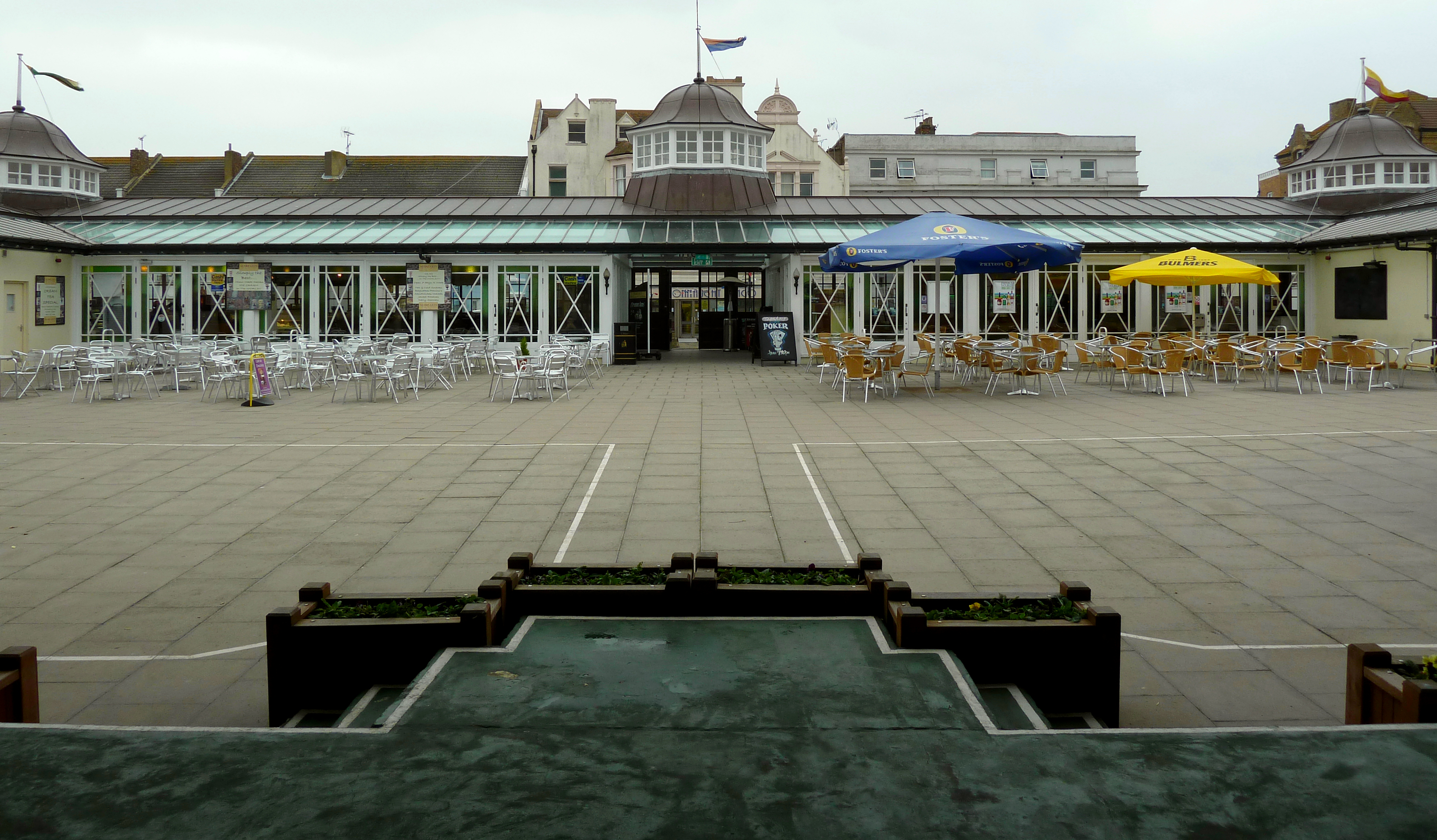 The Central Bandstand, Herne Bay, Kent, England. Built 1924. View inside band stand looking south from stage towards cafe seating, or tea dance area.